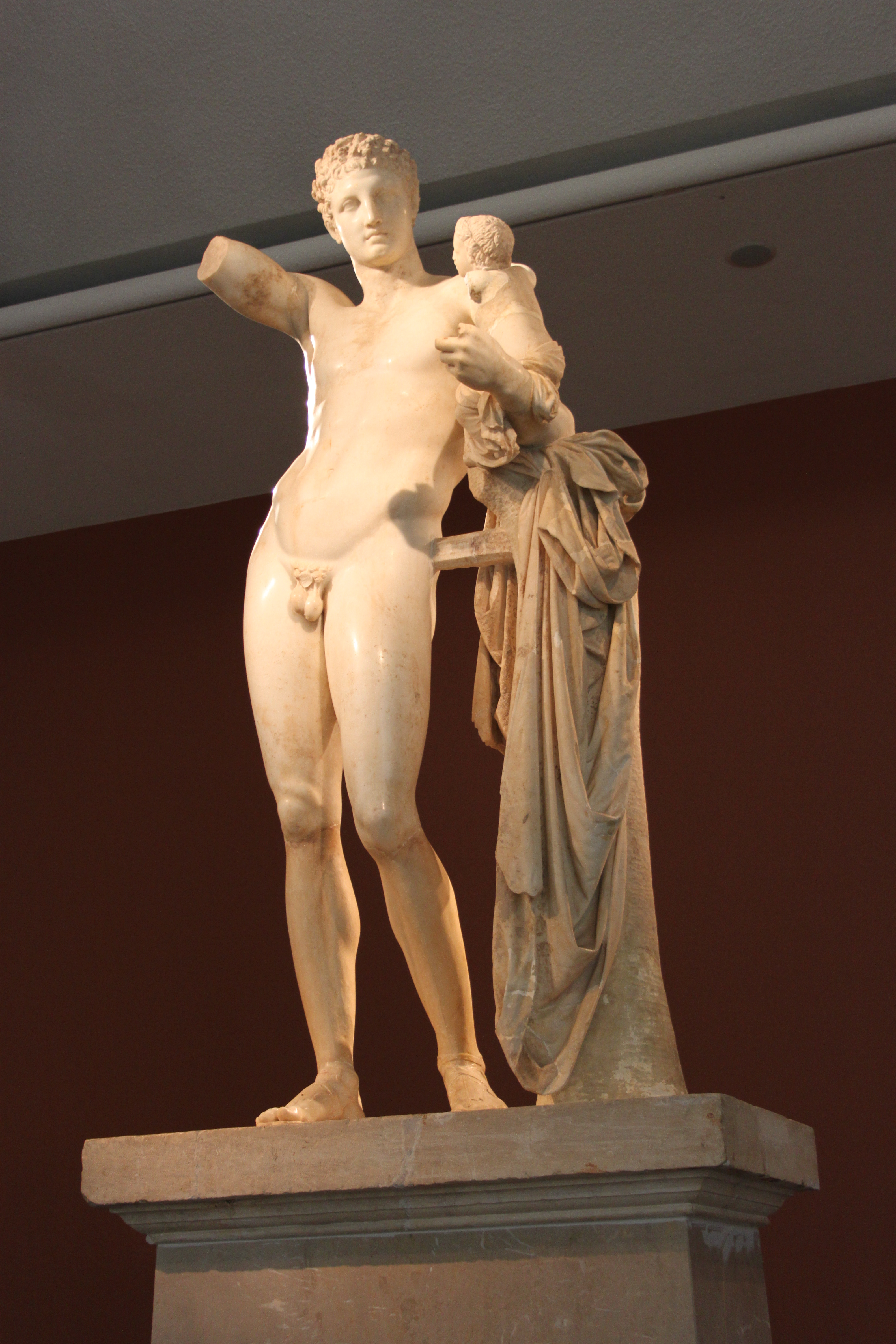 Hermes bearing the child Dionysos, Archaeological Museum of Olympia